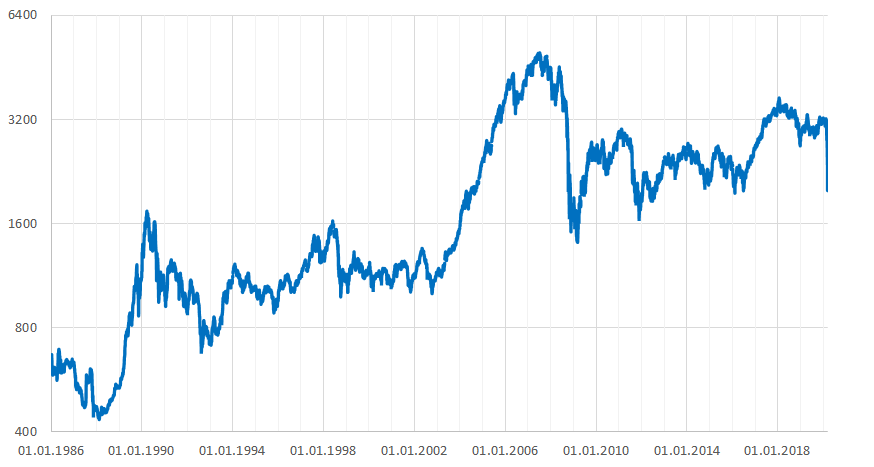 Austrian Traded Index (ATX) from December 1985 to March 2020 (daily closings)